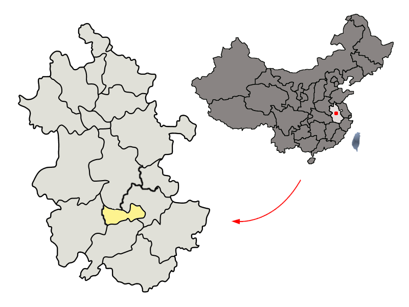 Location of Tongling Prefecture (yellow) within Anhui Province of China Map drawn in december 2007 using various sources, mainly : Anhui Province administrative regions GIS data: 1:1M, County level, 1990 Anhui Counties map from